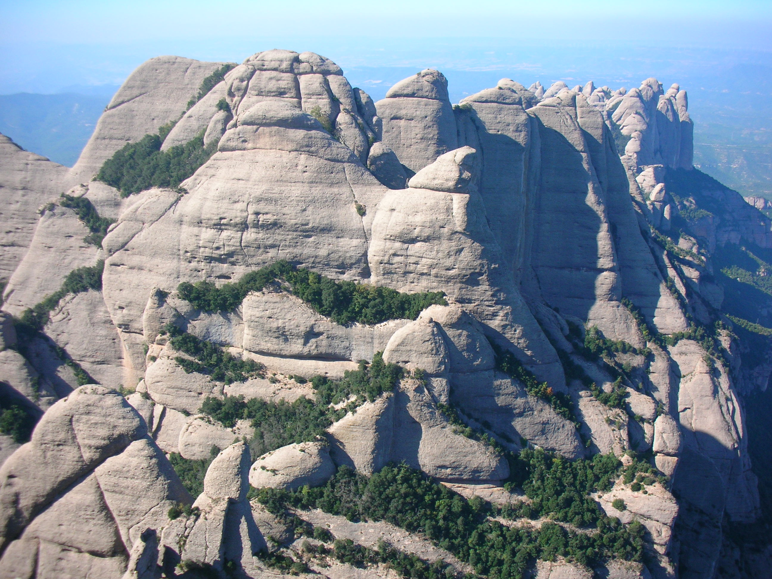 Montserrat, view of the Ecos region from Miranda de Sant Jeroni summit